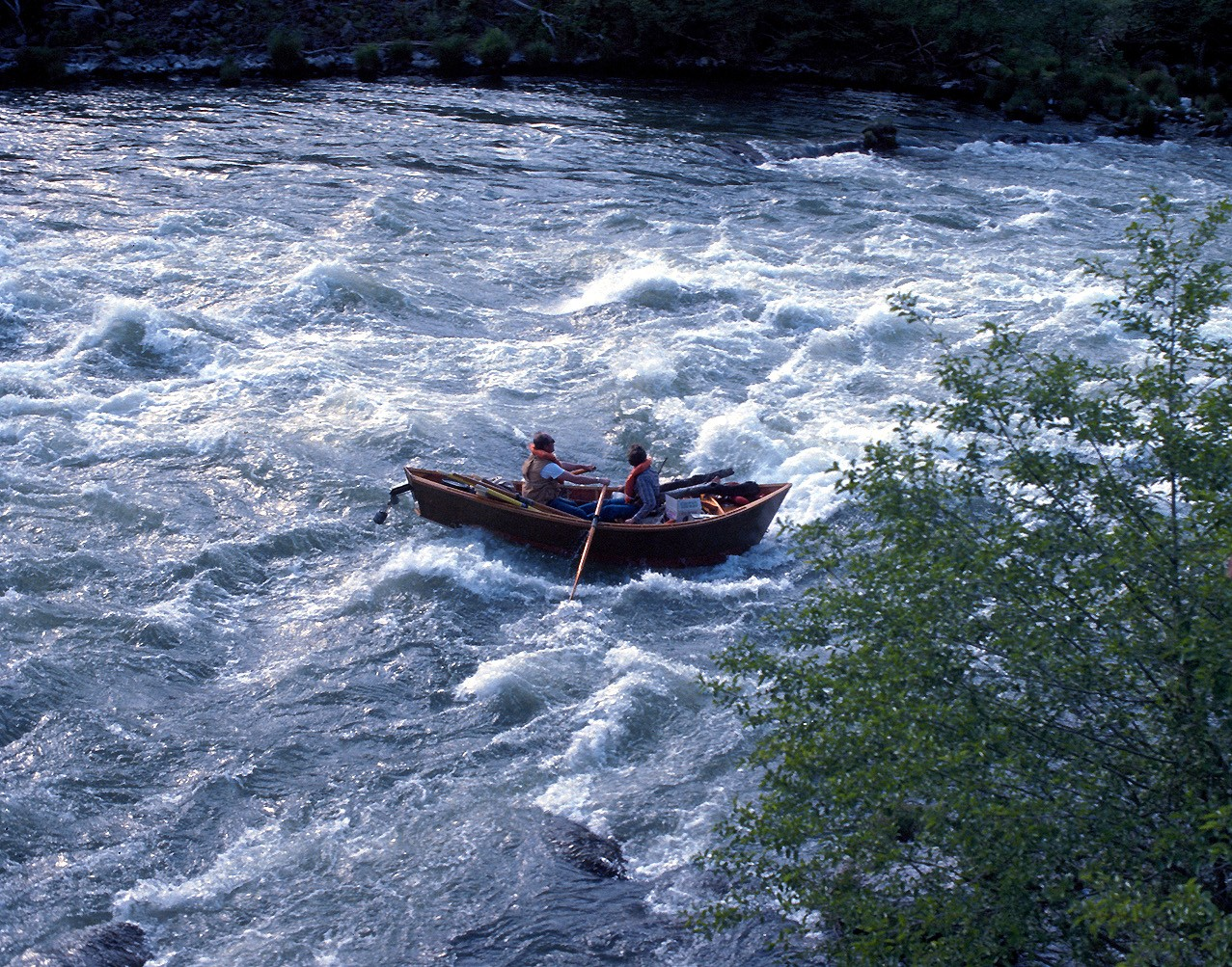 A drift boat, also called a McKenzie River dory, at Whitehorse Rapids on the Deschutes River near Maupin, Oregon, USA.